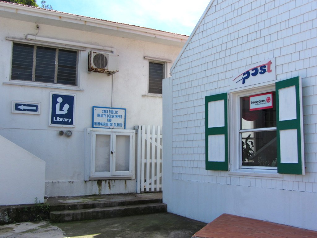 Saba's Library, Health Department, Clinic and Post Office